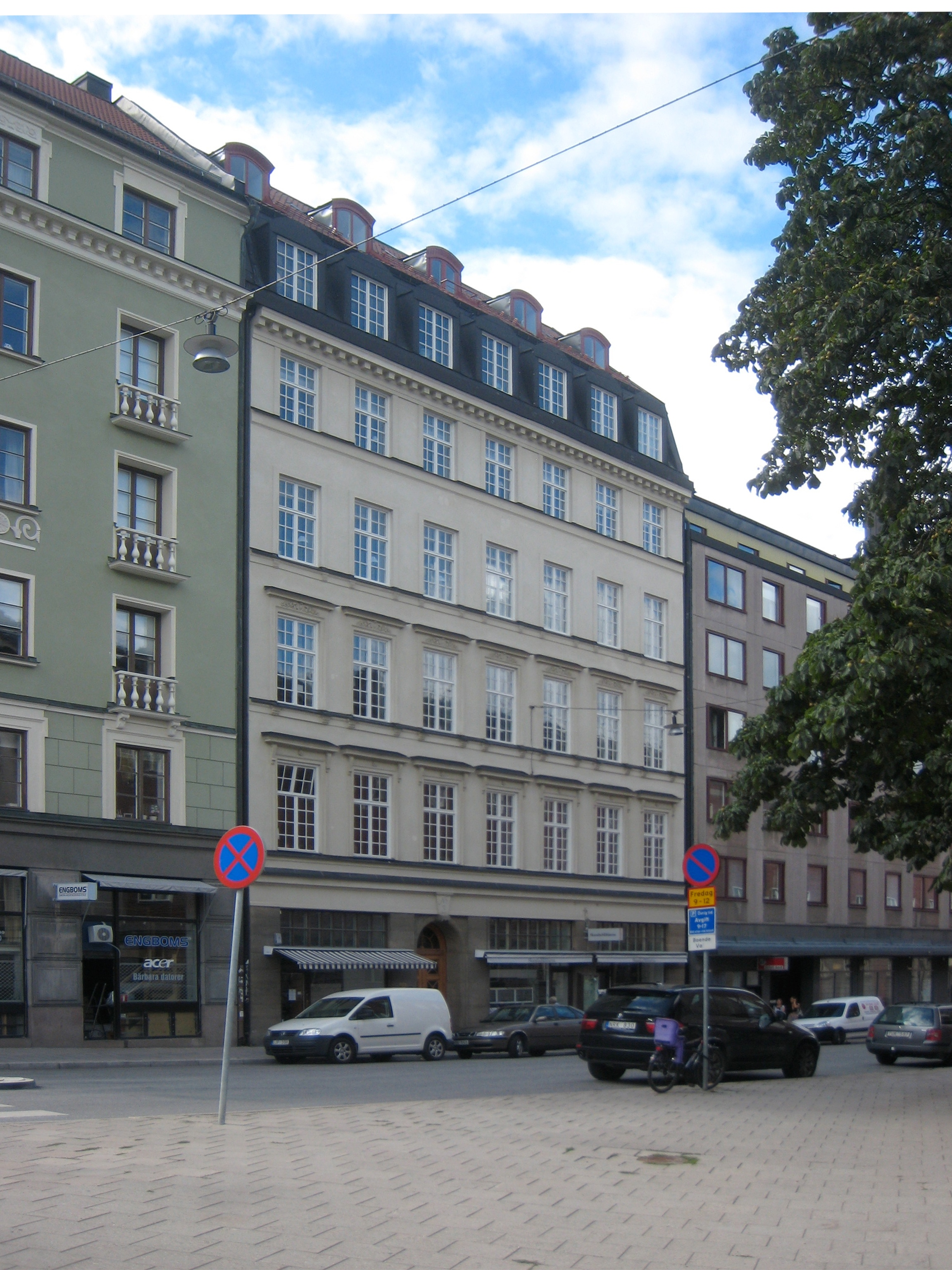 Brantingska huset, Norrtullsgatan 3. 1914 genomgripande ombyggnad, arkitekter Höög & Morssing, byggherre Hjalmar Branting